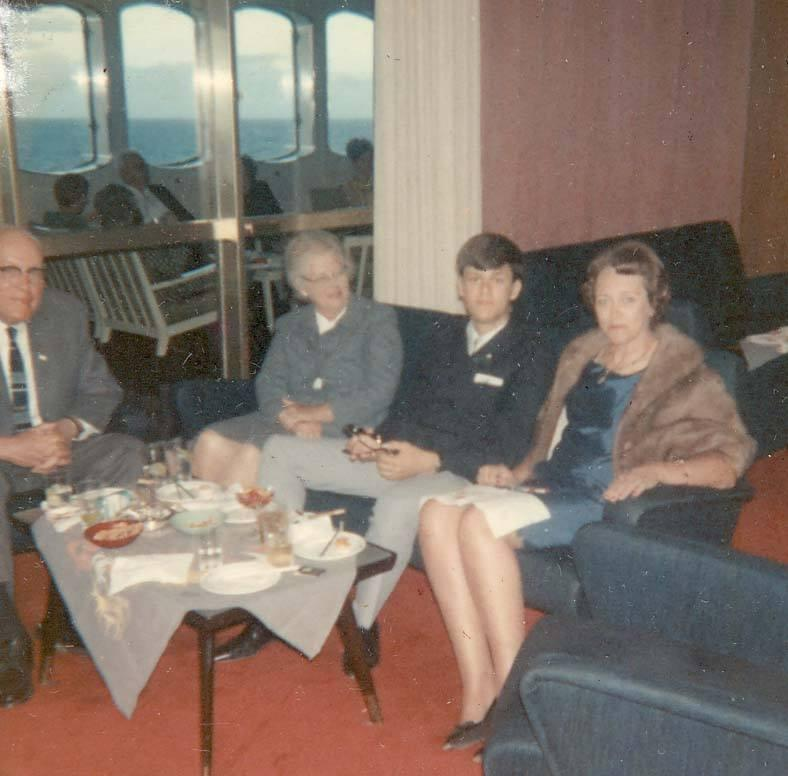 Lars Ridderstedt II birthday group (he is with Mr. & Mrs. Lyman Darling &)Place: First class, MS Gripsholm on the Atlantic Ocean